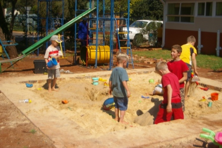 Pre-School playing in the sand box